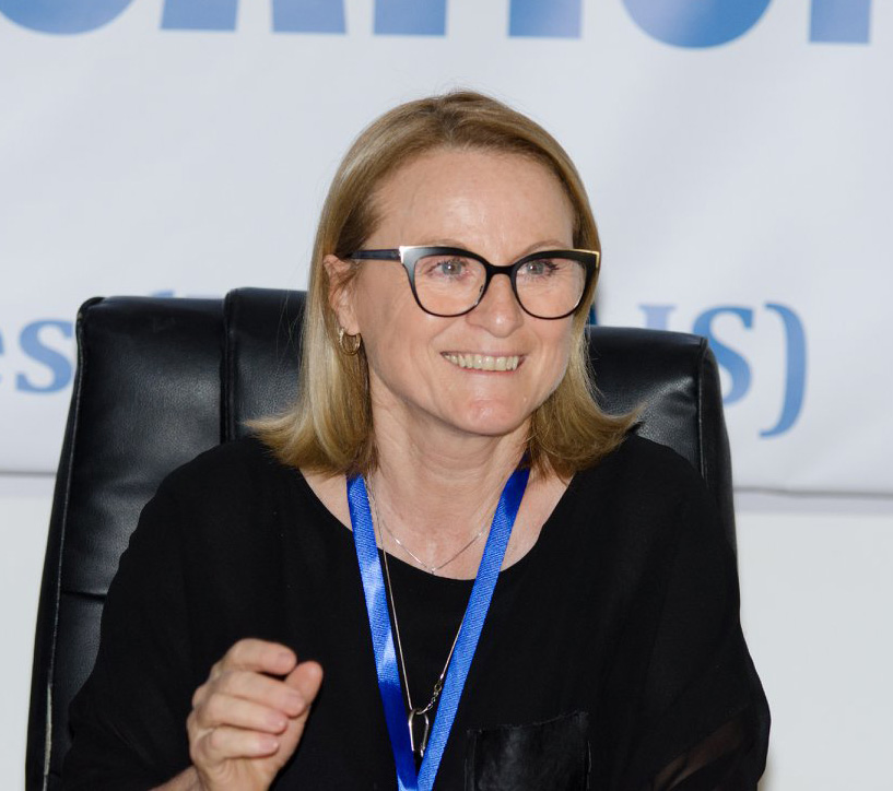 Susan Petrilli during her keynote lecture at the Semiosis in Communication 2018 Conference in Bucharest, Romania.